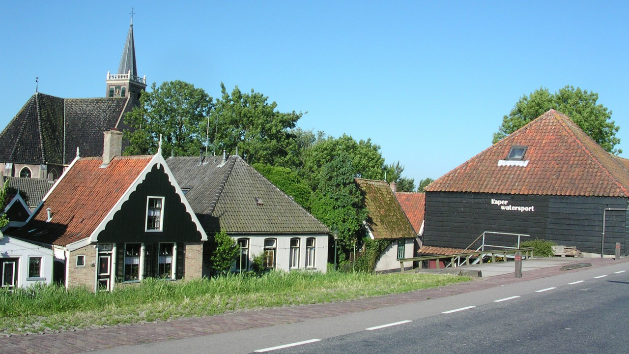 Het dorpsgezicht van Kolhorn, met rechts een voormalige turfboet The village of Kolhorn (with a former peat barn on the rightside)